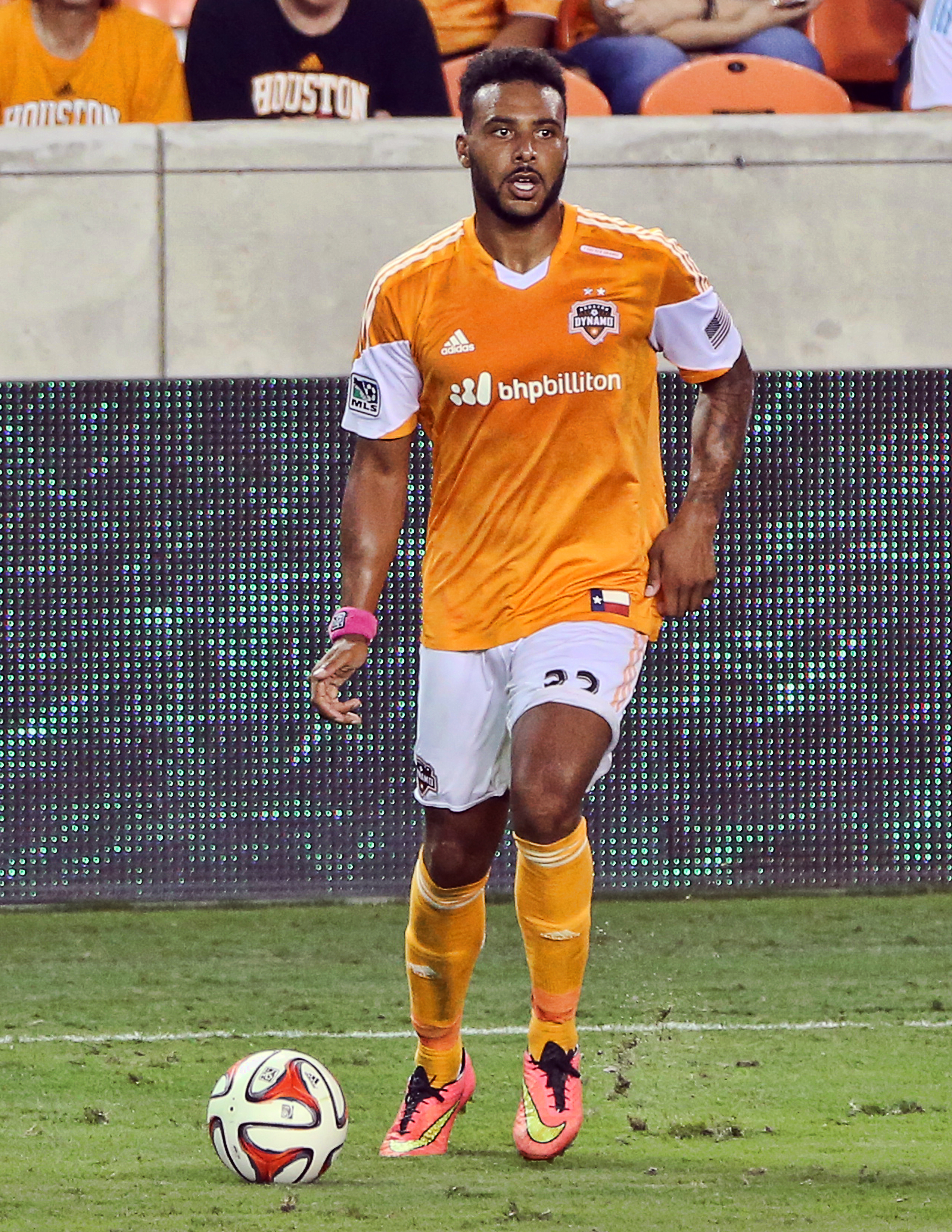 Houston Dynamo forward Giles Barnes moves the ball during a match between the Houston Dynamo and DC United at BBVA Compass Stadium, Houston, Texas on August 3, 2014